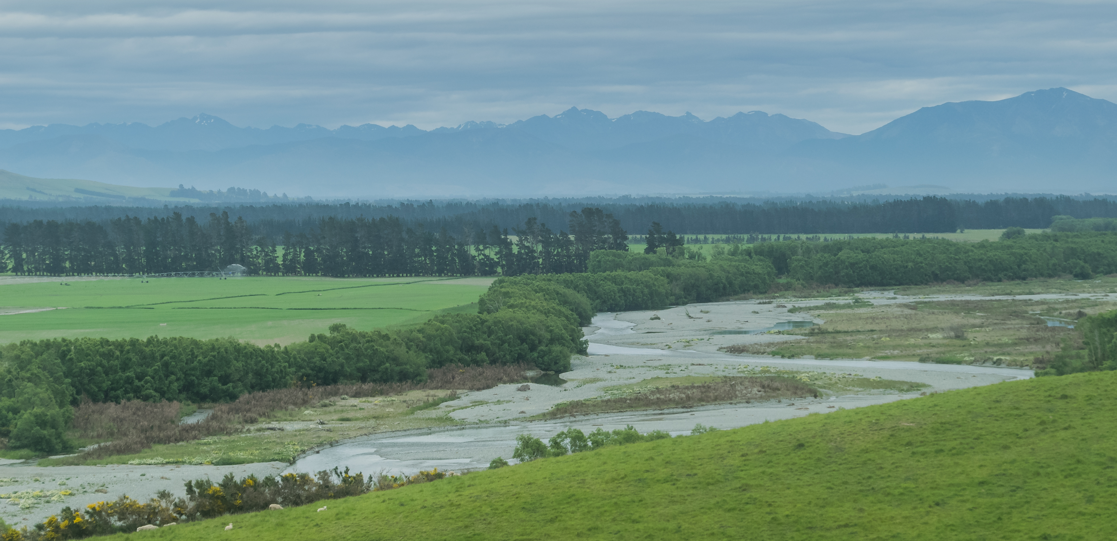 Oreti River near Lumsden, Southland region, South Island of New Zealand